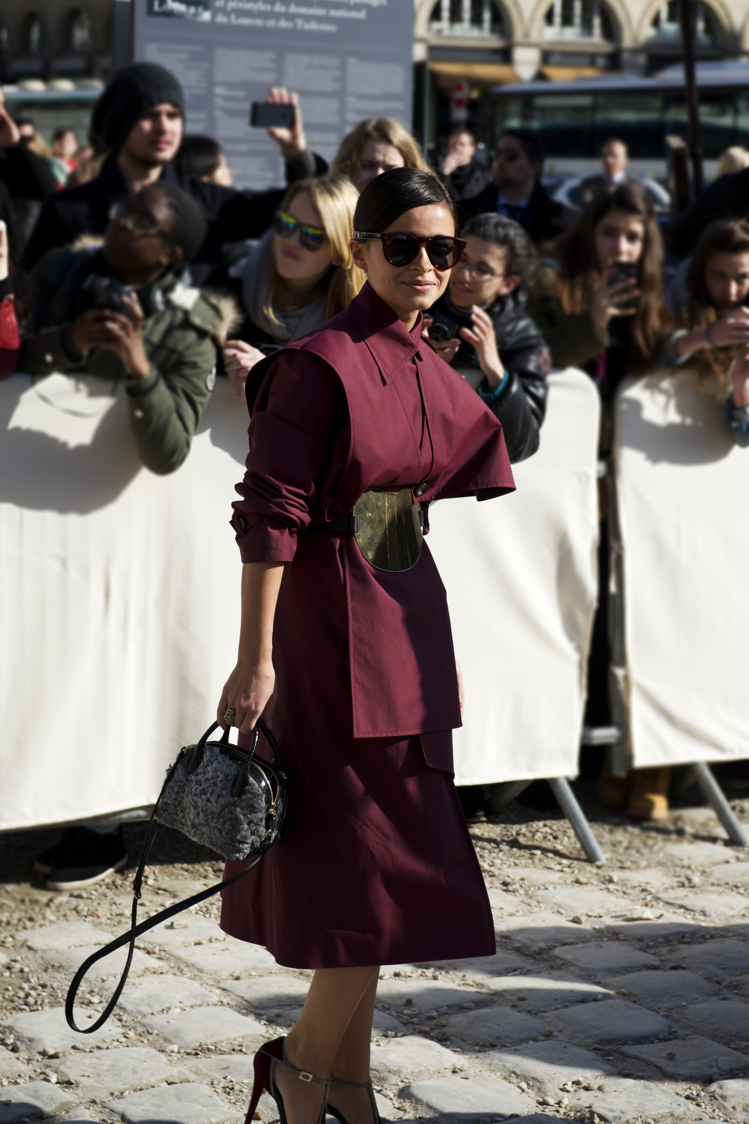 Louis Vuitton autumn/winter 2014 fashion show, Paris, France.